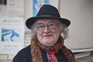 Willie Cools, Artist